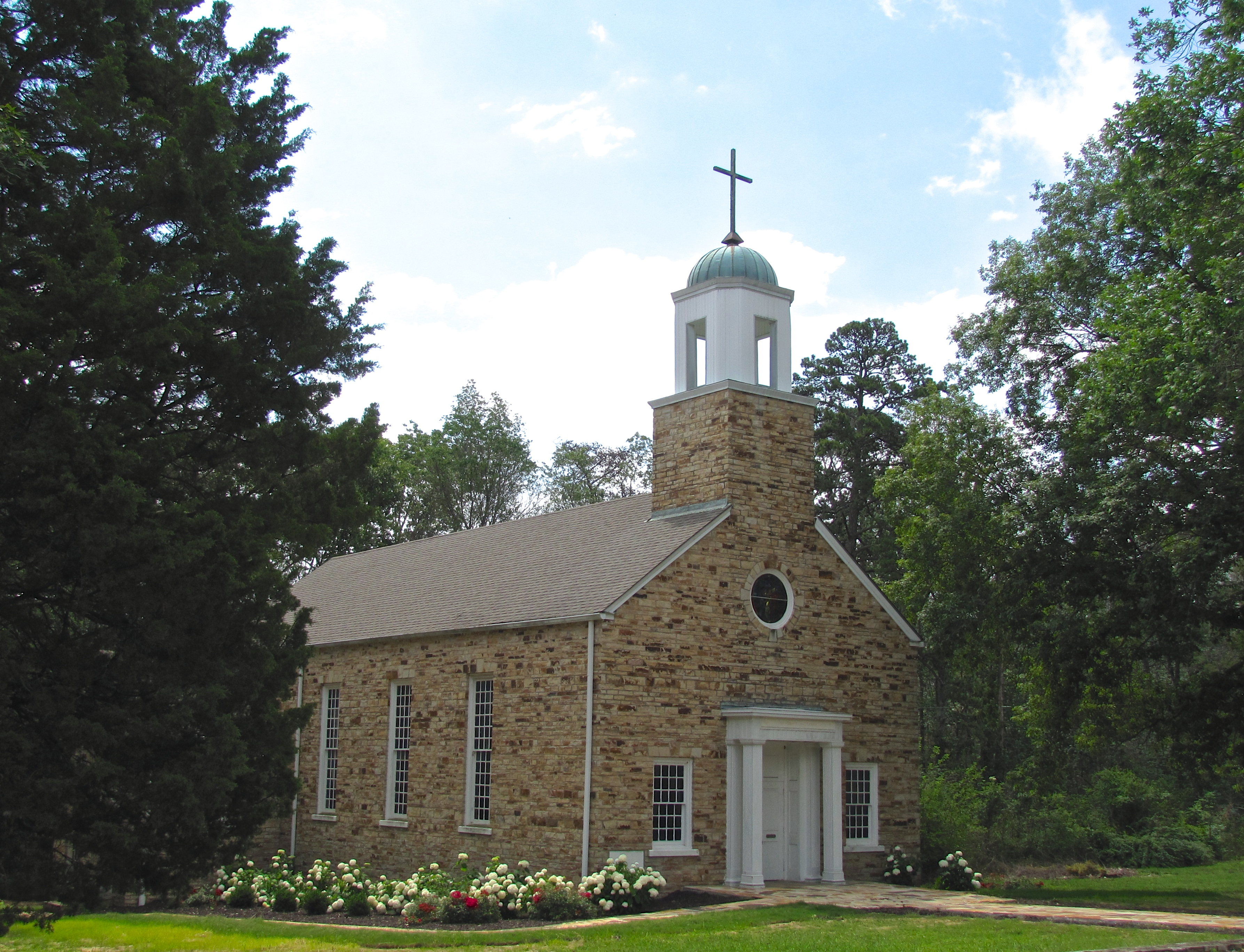 The Nan Roberts Lane Chapel on the campus of Kate Duncan Smith DAR School in Grant, Alabama, United States.